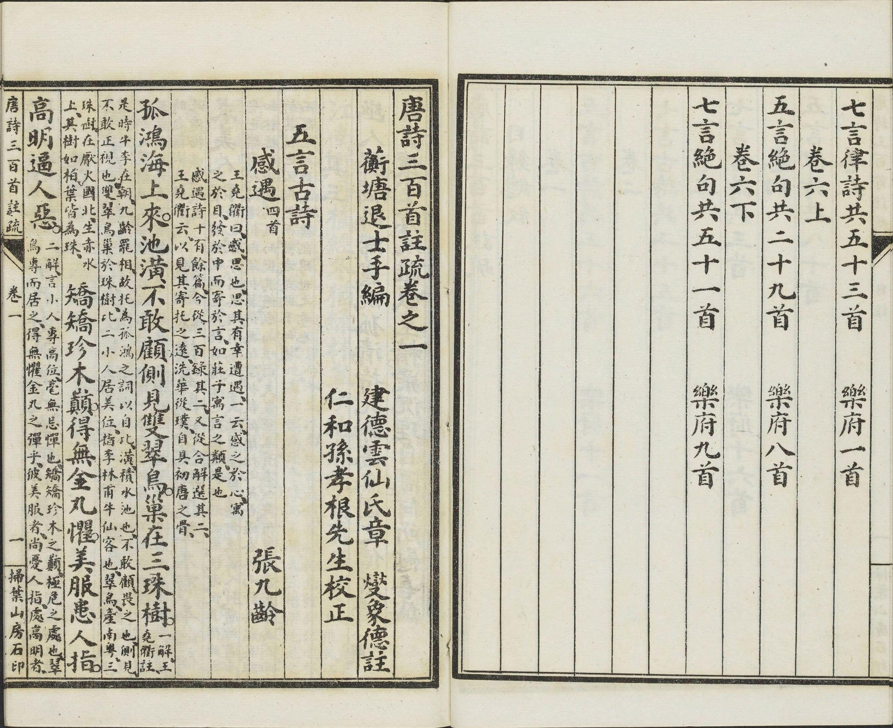 Three Hundred Tang Poems